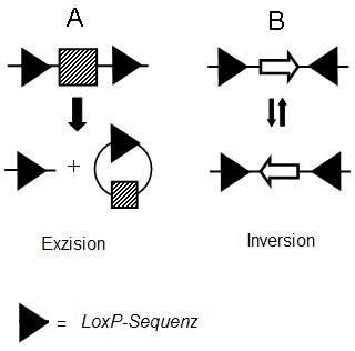 Cre-loxP-System